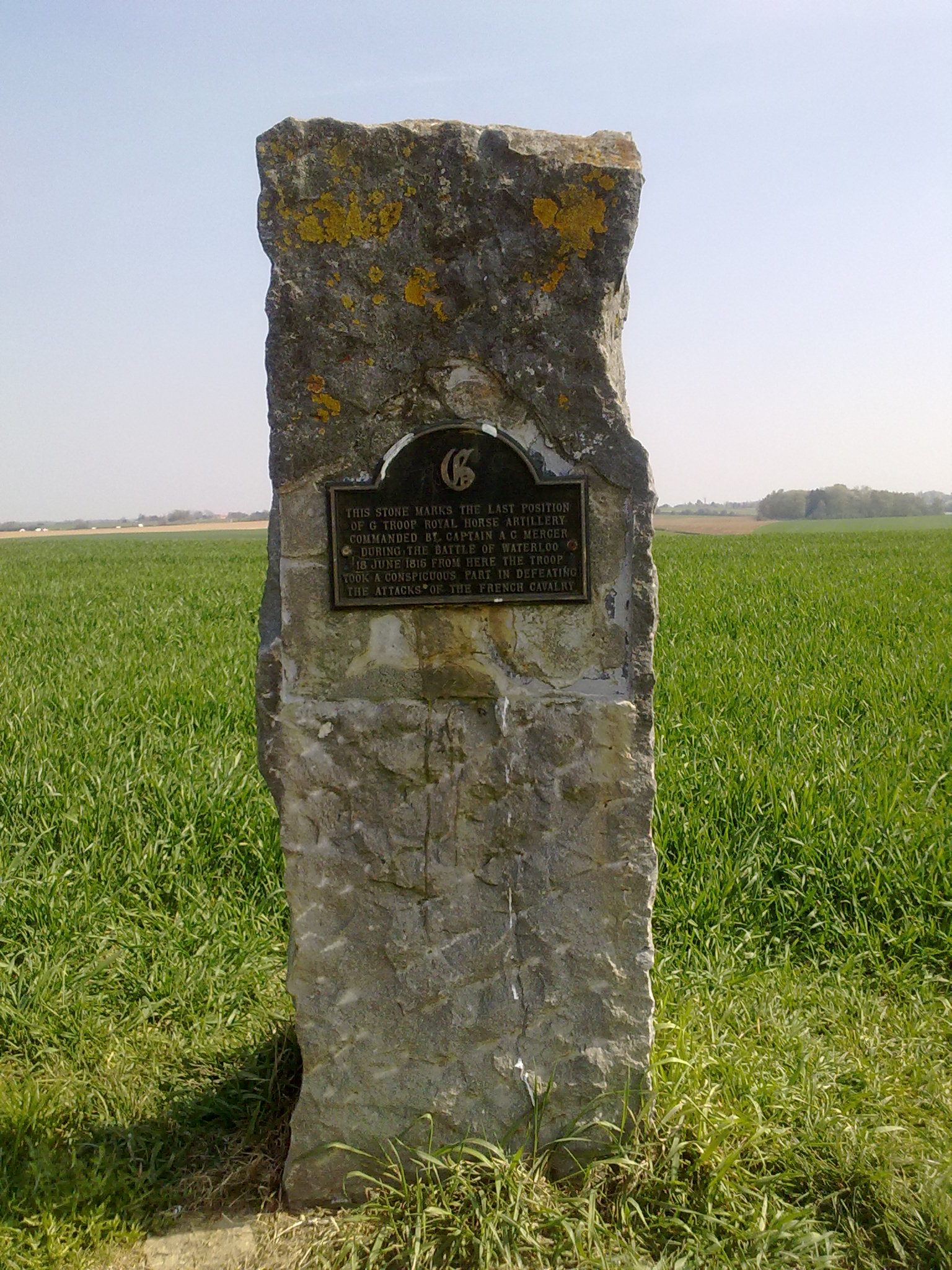 Memorial stone dedicated to Alexander Cavalié Mercer on the battlefield of Waterloo, Belgium. It is located on the southern verge of the Chemin des Vertes Bornes about half way between the Lion Mound and the junction with Chemin des Plancenoit